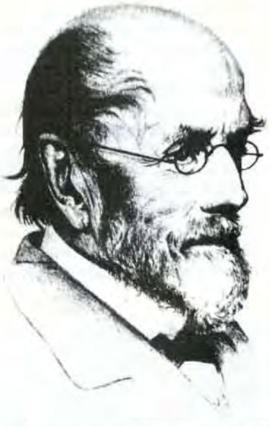 The etymologist and spiritualist Hensleigh Wedgwood.